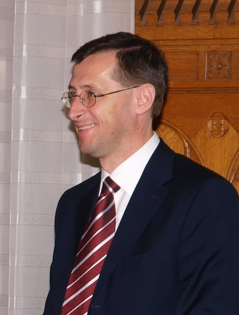 Mihály Varga in the Hungarian Parliament.